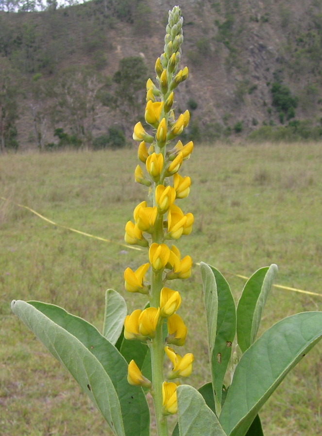 Flowerheads are racemes to 20 cm long; with 20-40 crowded, deep yellow, pea-like flowers.